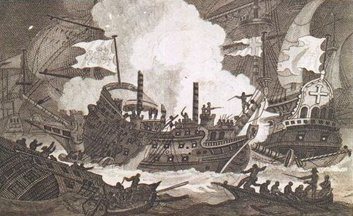 Sir Richard Grenville's Gallant Defence of the Revenge